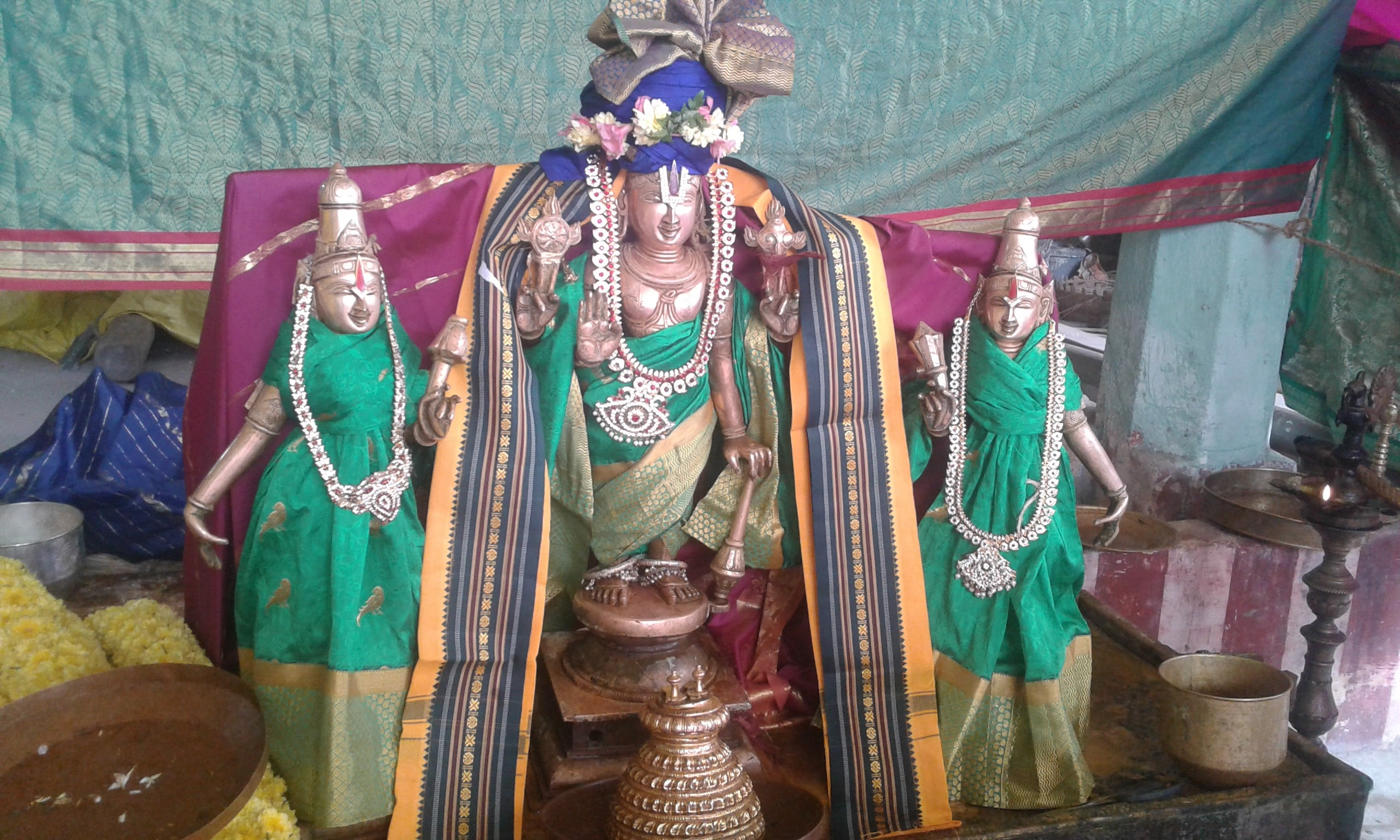 thirumanajanam at srinivasa perumal temple pondicherry